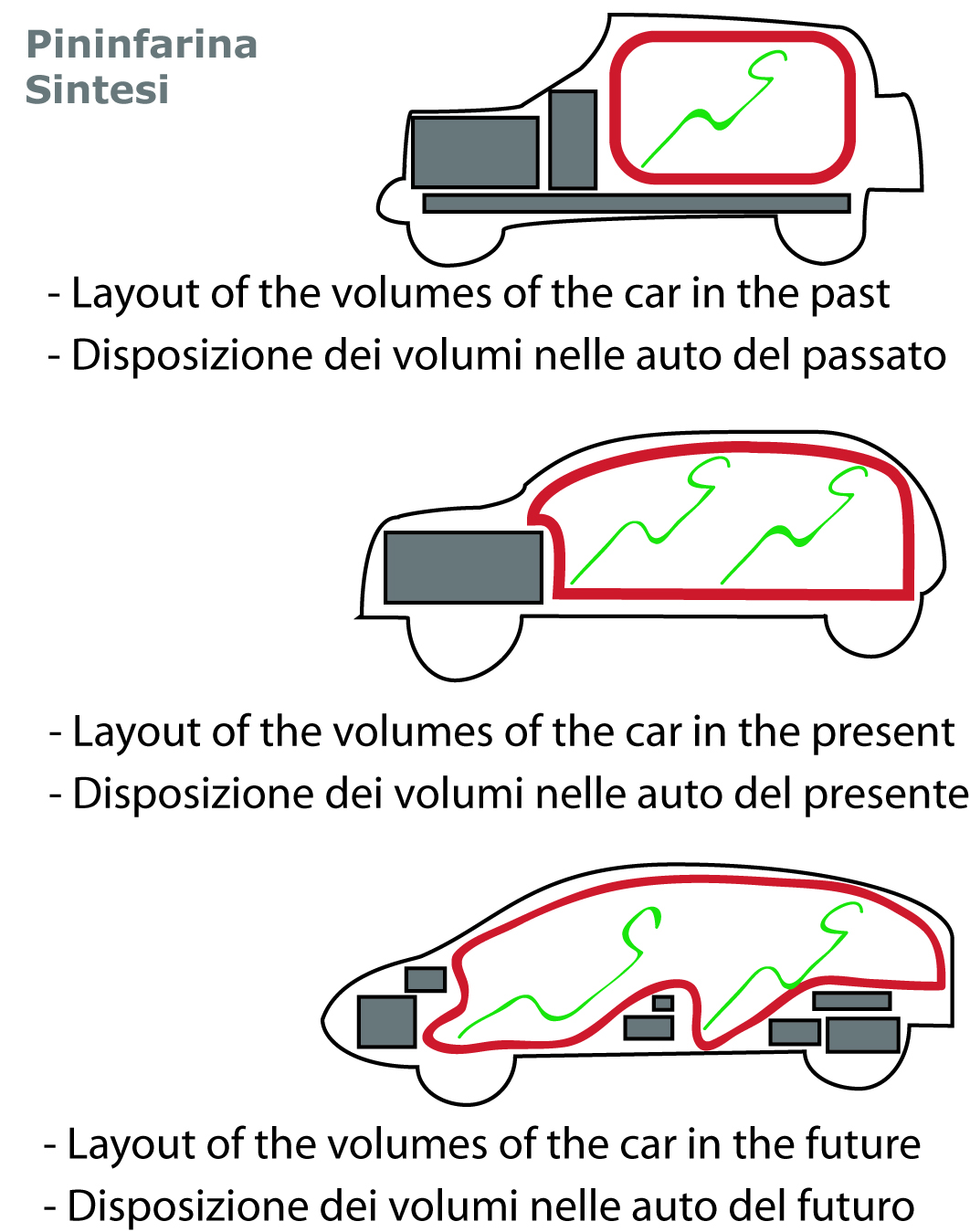 Layout of volumes of cars in the past, the present and the future designed by Pininfarina whit the Pininfarina Sintesi